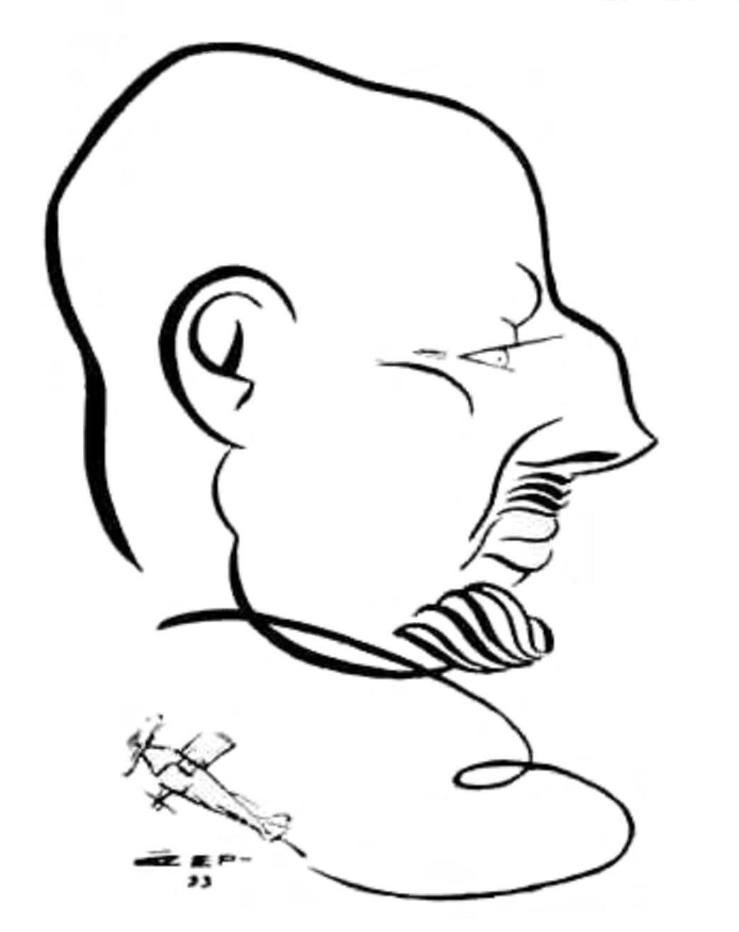 Lithuanian professor Zigmas Žemaitis. Drawing by Aleksandras Čepas printed in sports magazine "Kūno kultūra ir sveikata", 1933, No.25.